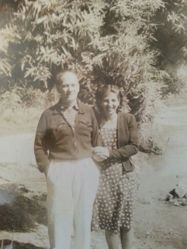 Fernando de Paiva Lacerda and his daughter Fernanda Borges de Lacerda